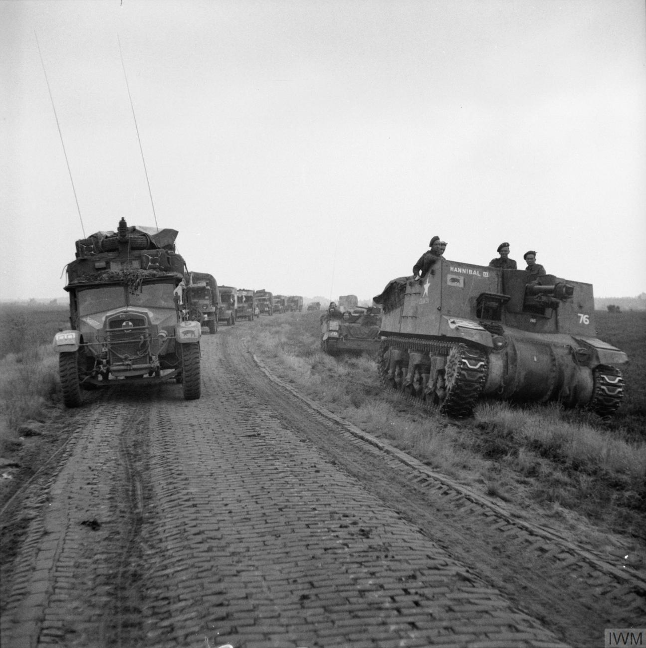 The British Army in North-west Europe 1944-45 11th Armoured Division vehicles during the advance in Holland, 22 September 1944. On the right is a Sexton self-propelled gun of 13th (HAC) Regiment Royal Horse Artillery.